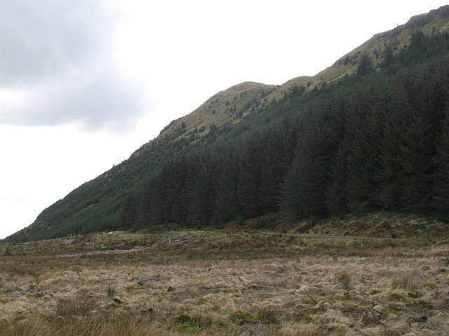 Cùl na Beinne Steep slopes around the back of Beinn Lagan.